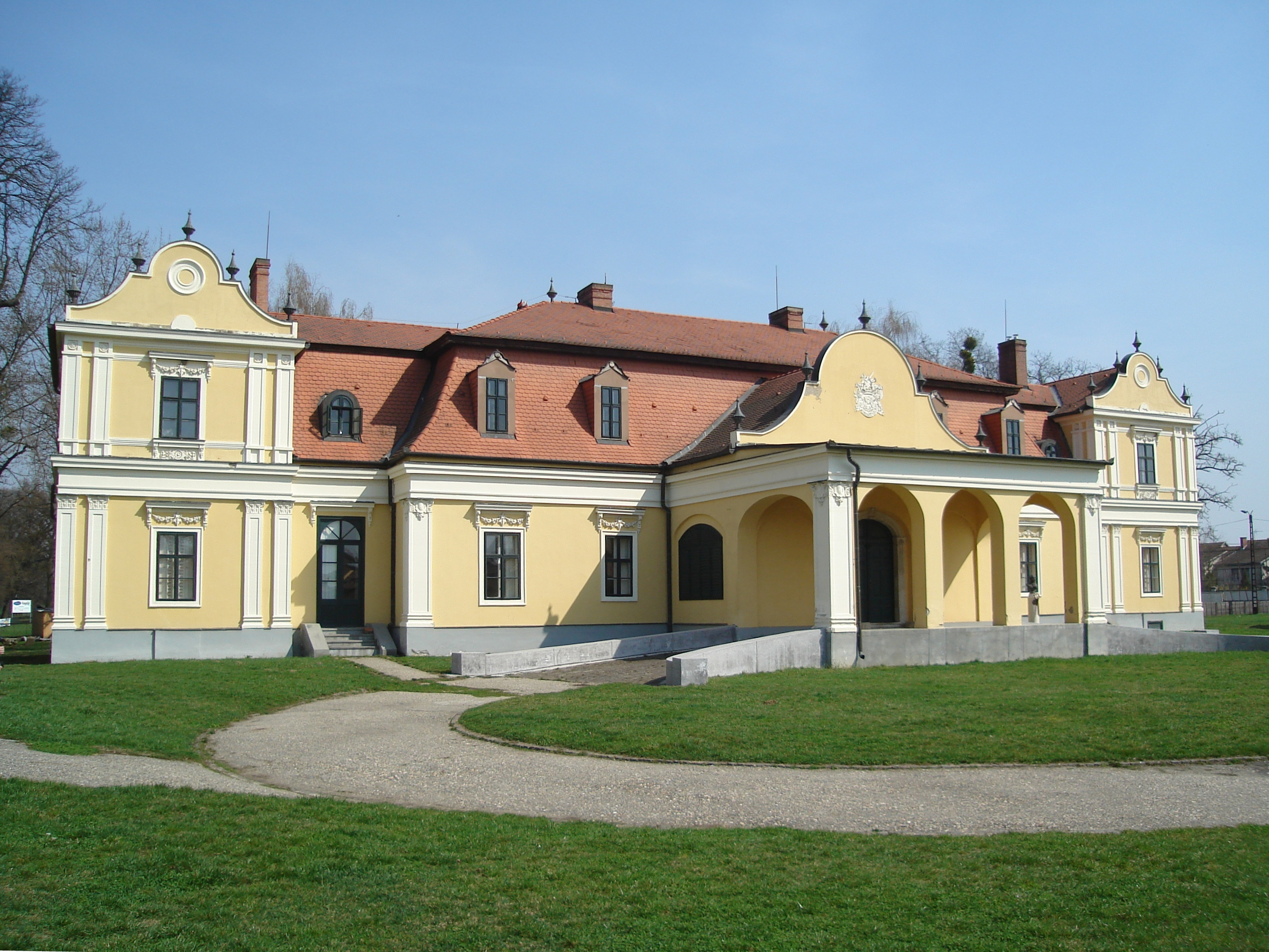 Lónyay's mansion in Tuzsér (North-Eastern Hungary).